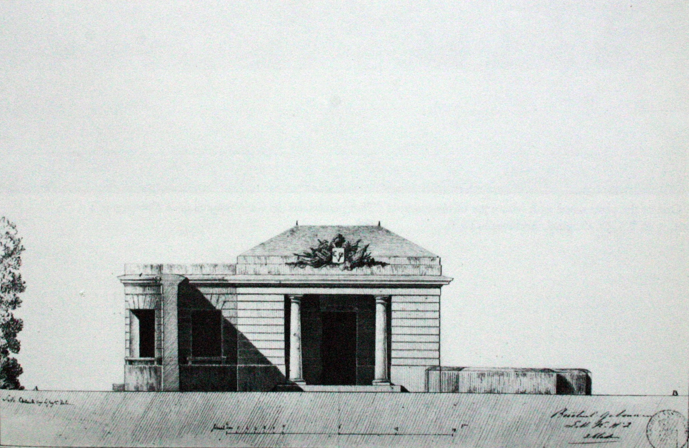 Thibault's Guard House